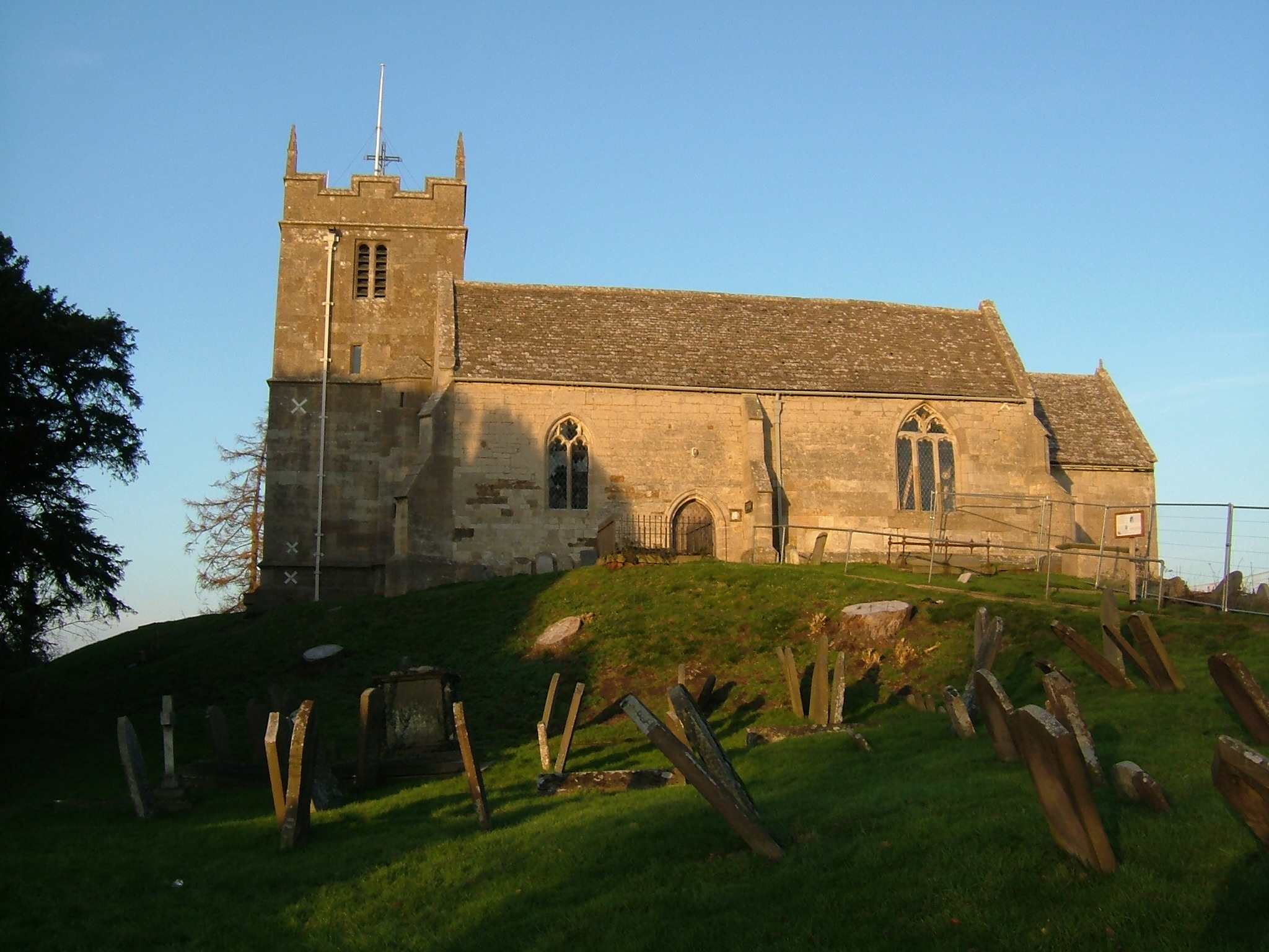 Photo I took myself of St Bartholemew's Church, on top of